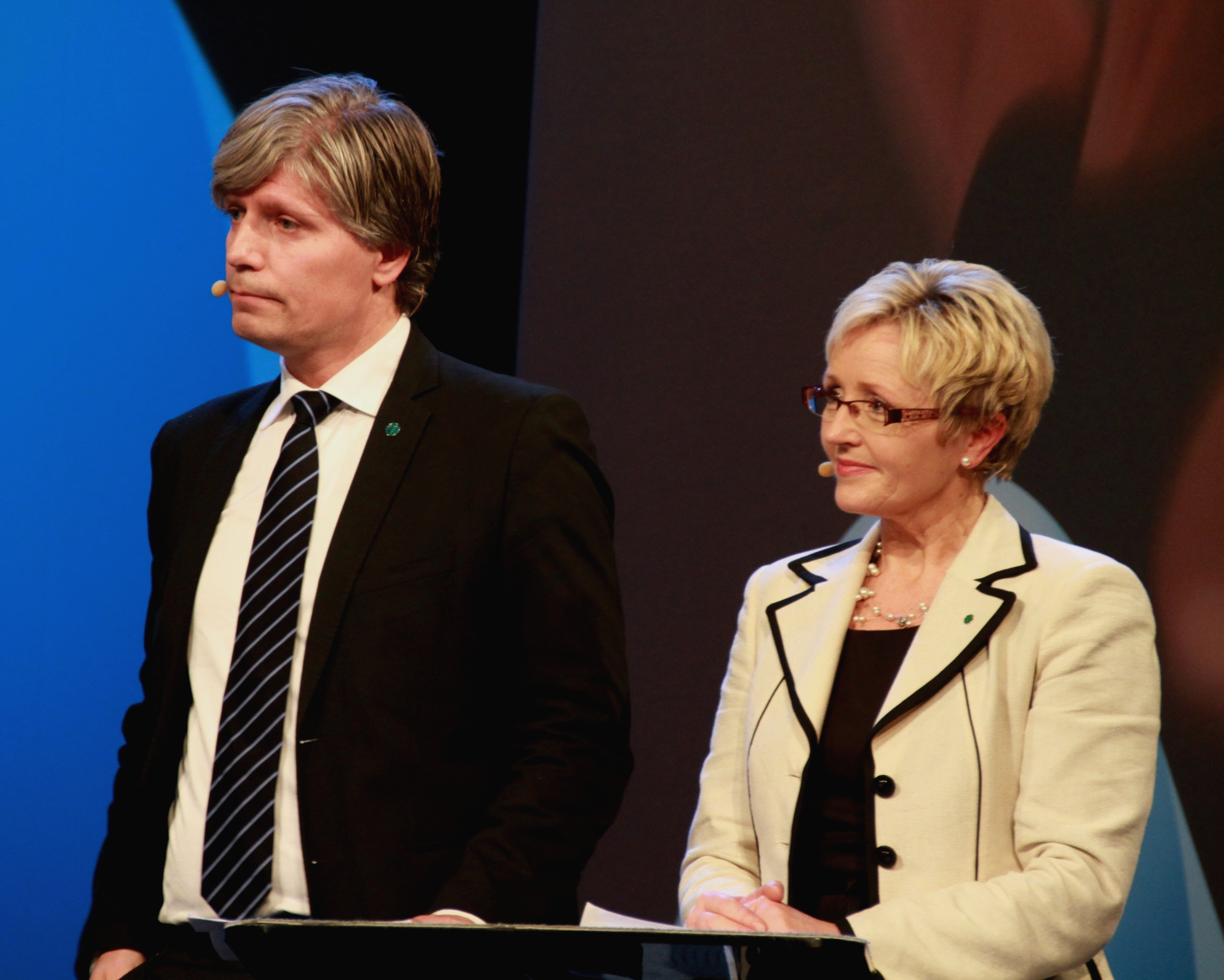 Ola Elvestuen (V) and Liv Signe Navarsete (Sp), Norwegian centre-oriented political leaders.